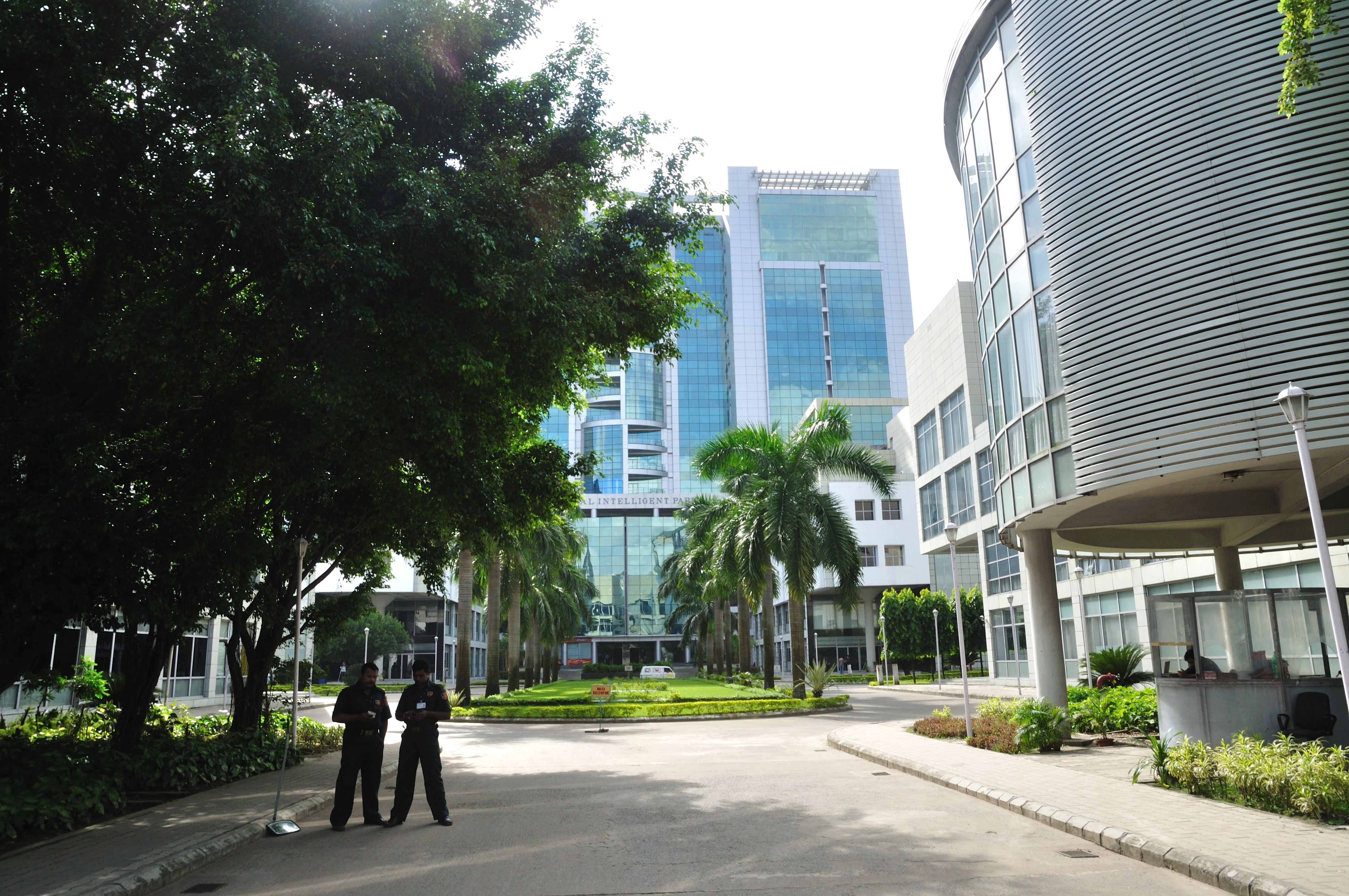 Sector V of the Salt Lake City or Bidhan Nagar, Kolkata